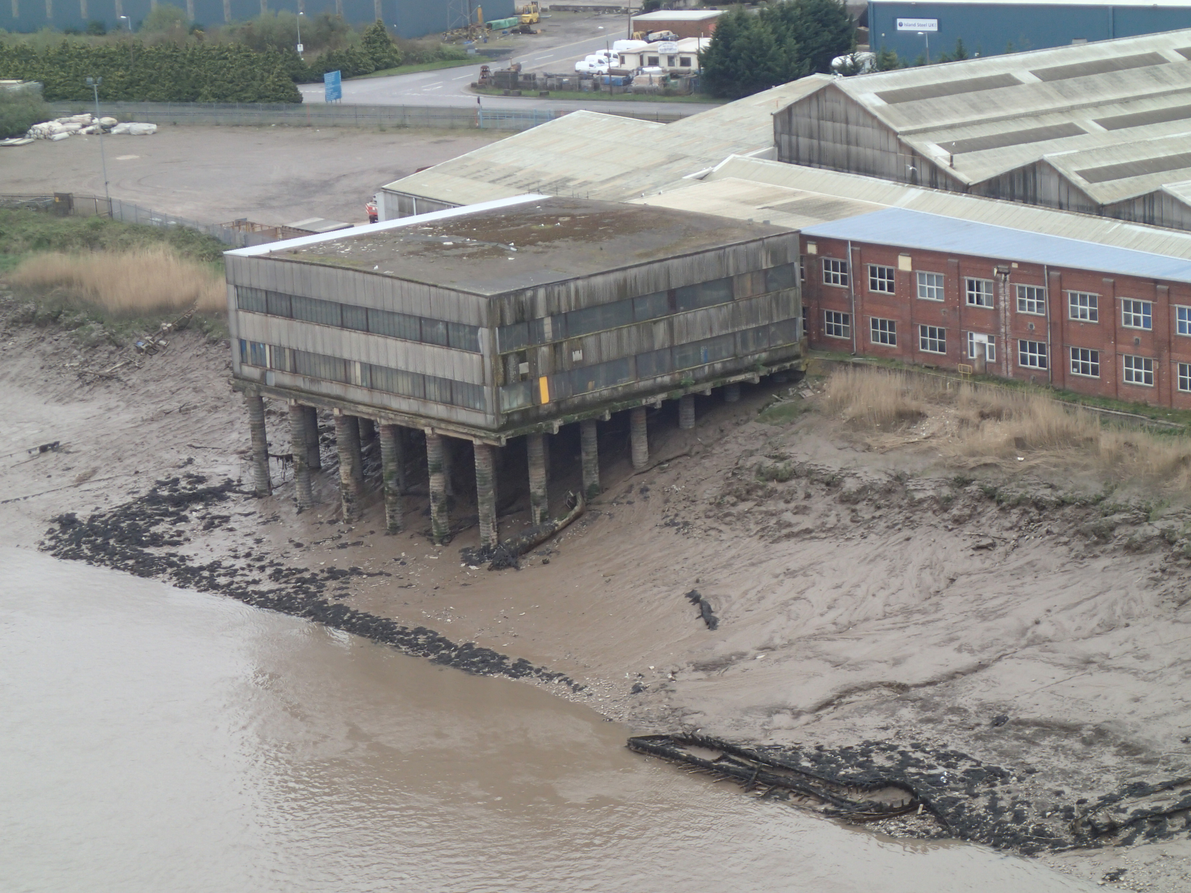 Part of Rowecord Engineering seen from the Transporter Bridge. Rowecord were involved in two other nearby bridges (the Newport City Footbridge and the Twenty Ten footbridge at Celtic Manor for the Ryder Cup). The site was originally the Neptune works, and later Braithwaites Engineering.